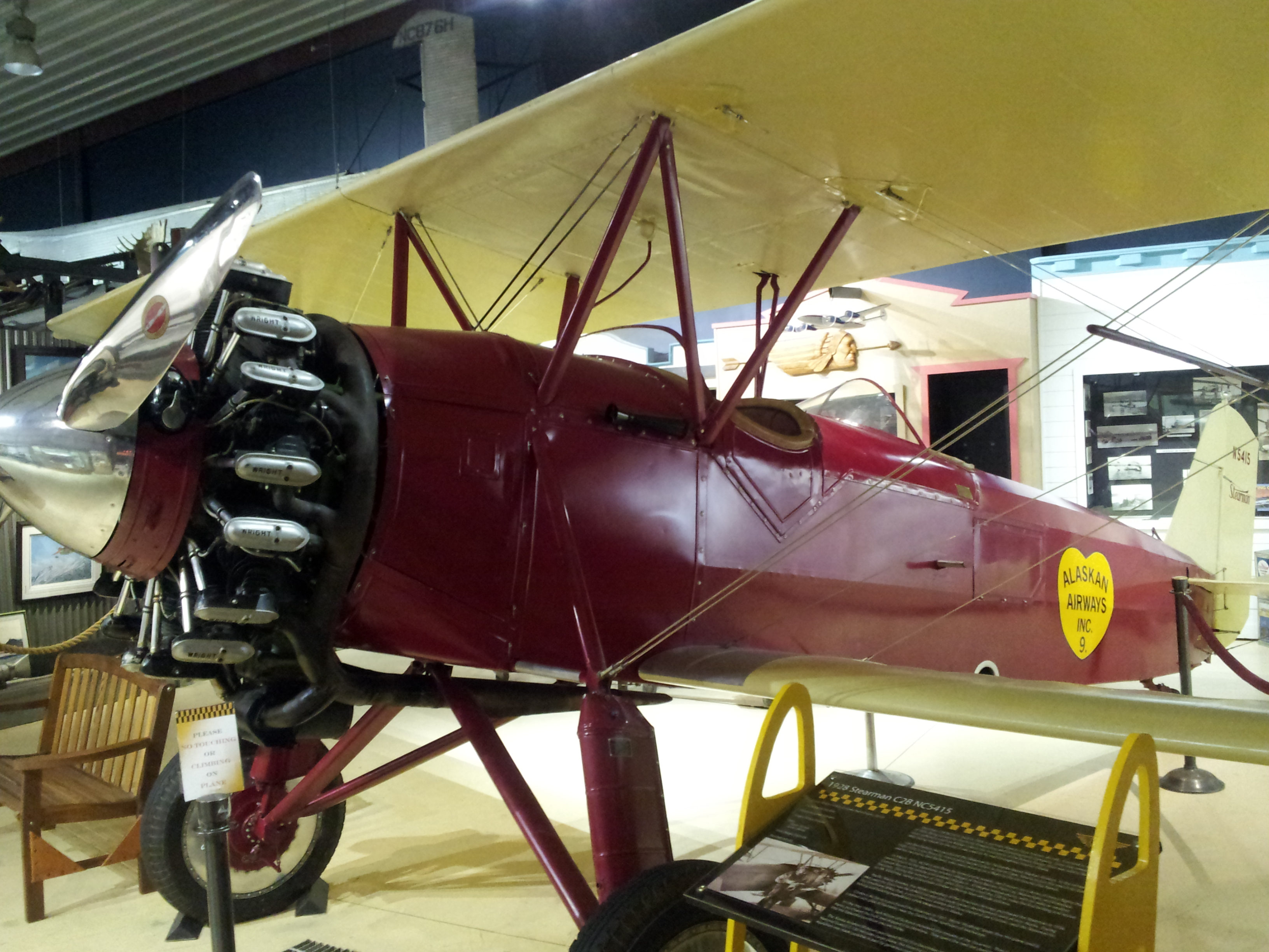 Alaskan Airways Stearman